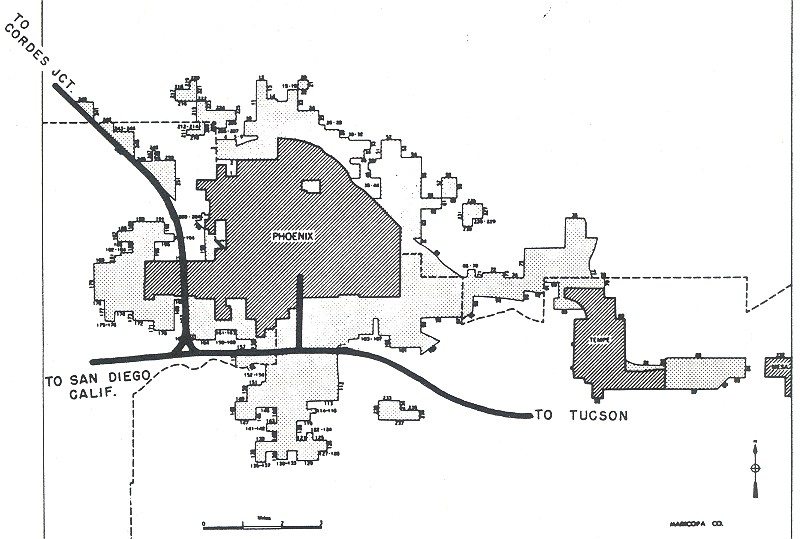 Interstates in today's terms I-10 (built further north through and west of downtown, including what had been built as I-510) I-17